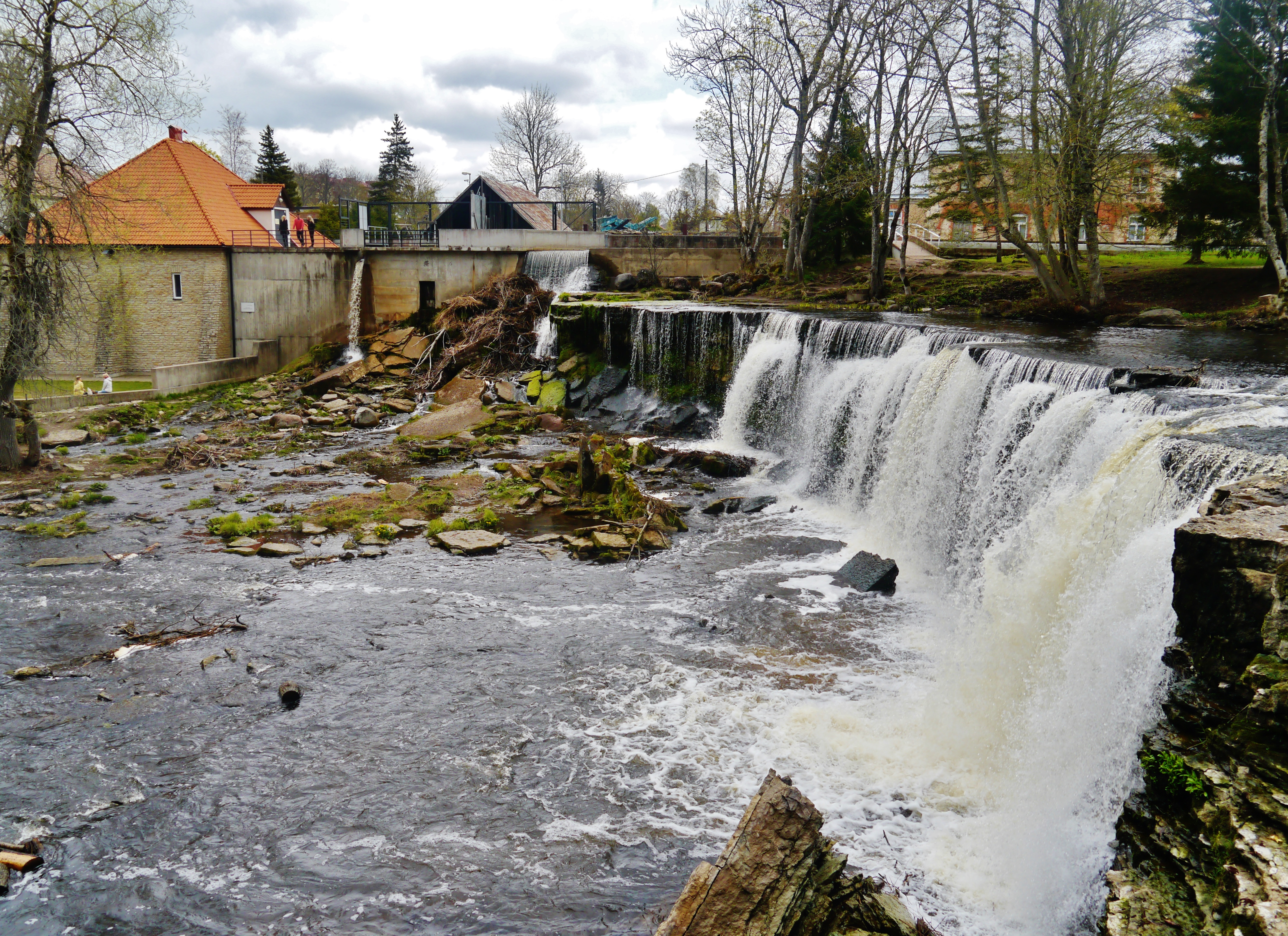 Waterfall, Keila-Joa, Estonia